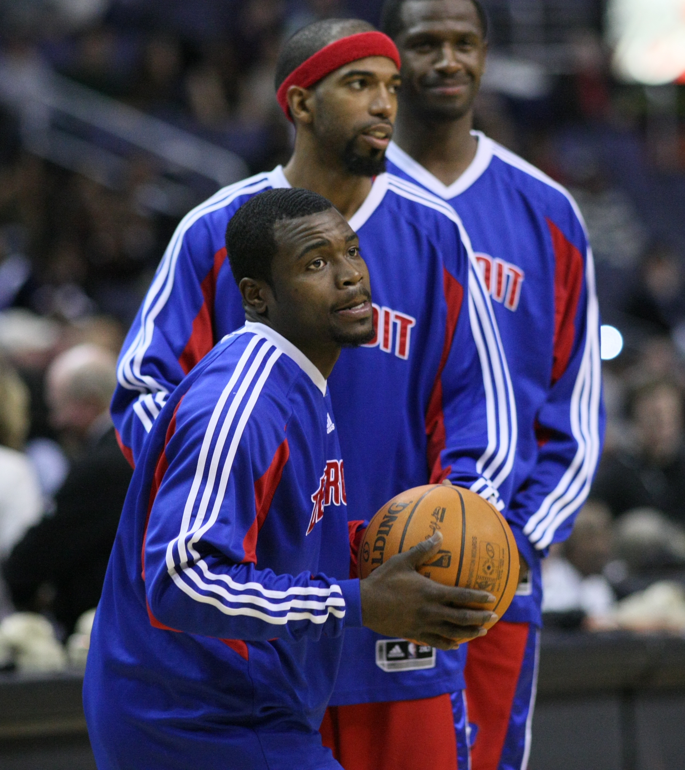 Will Bynum, of the National Basketball Association's Detroit Pistons, during a 2008 basketball game against the Washington Wizards.